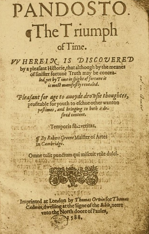 Title page: "Pandosto" by Robert Greene